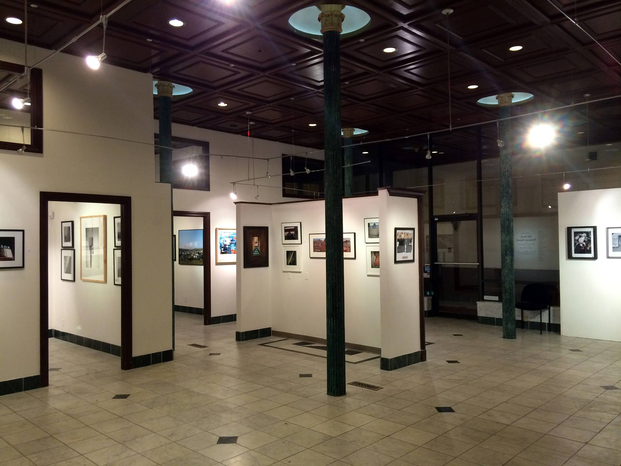 A view of Albany Center Gallery, from the inside.